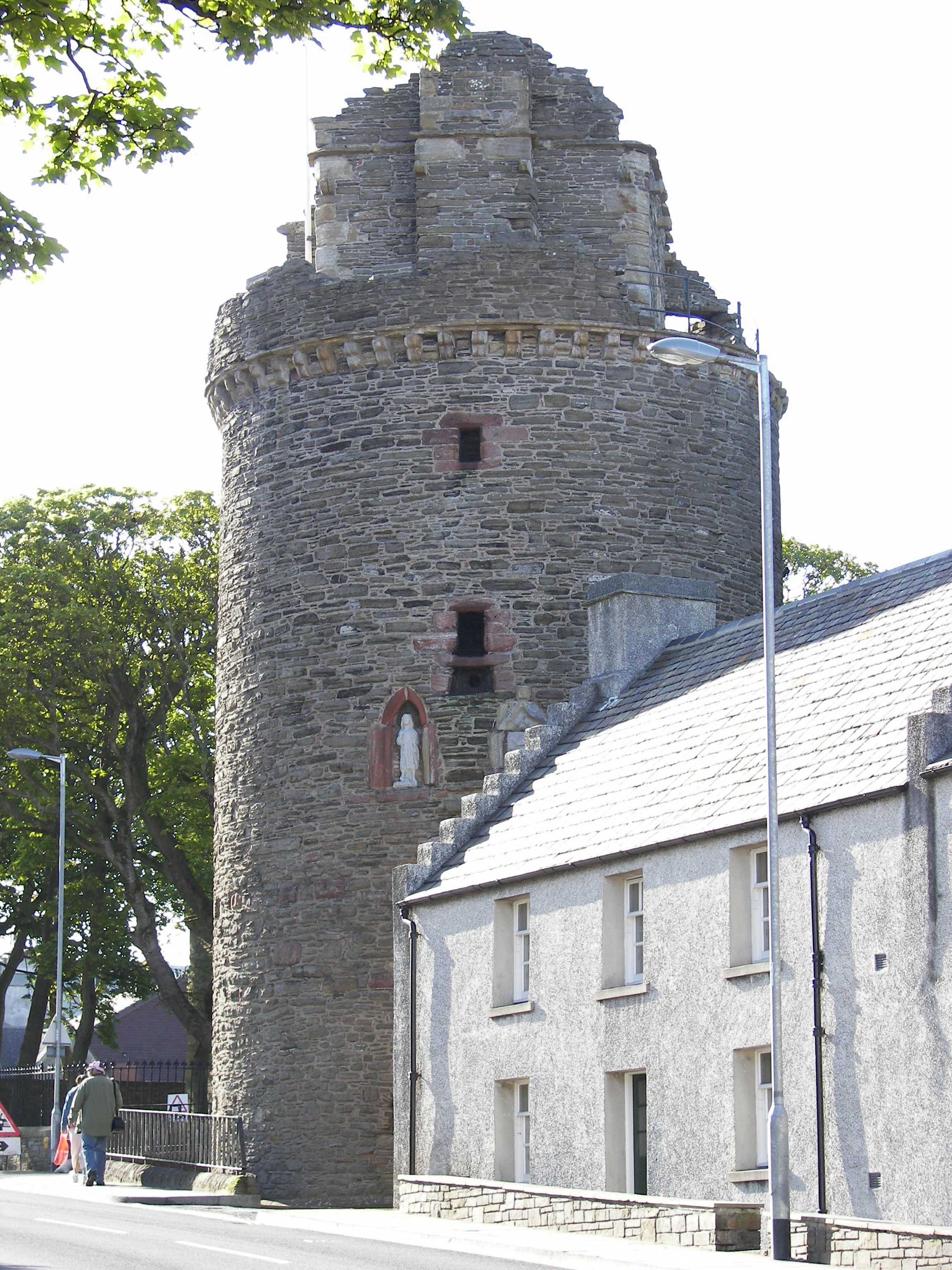 Bishop's Palace in Kirkwall, Scotland.